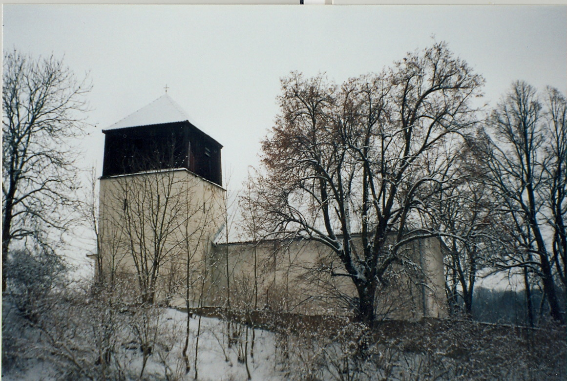 Church of Virgin Mary in Nehasice